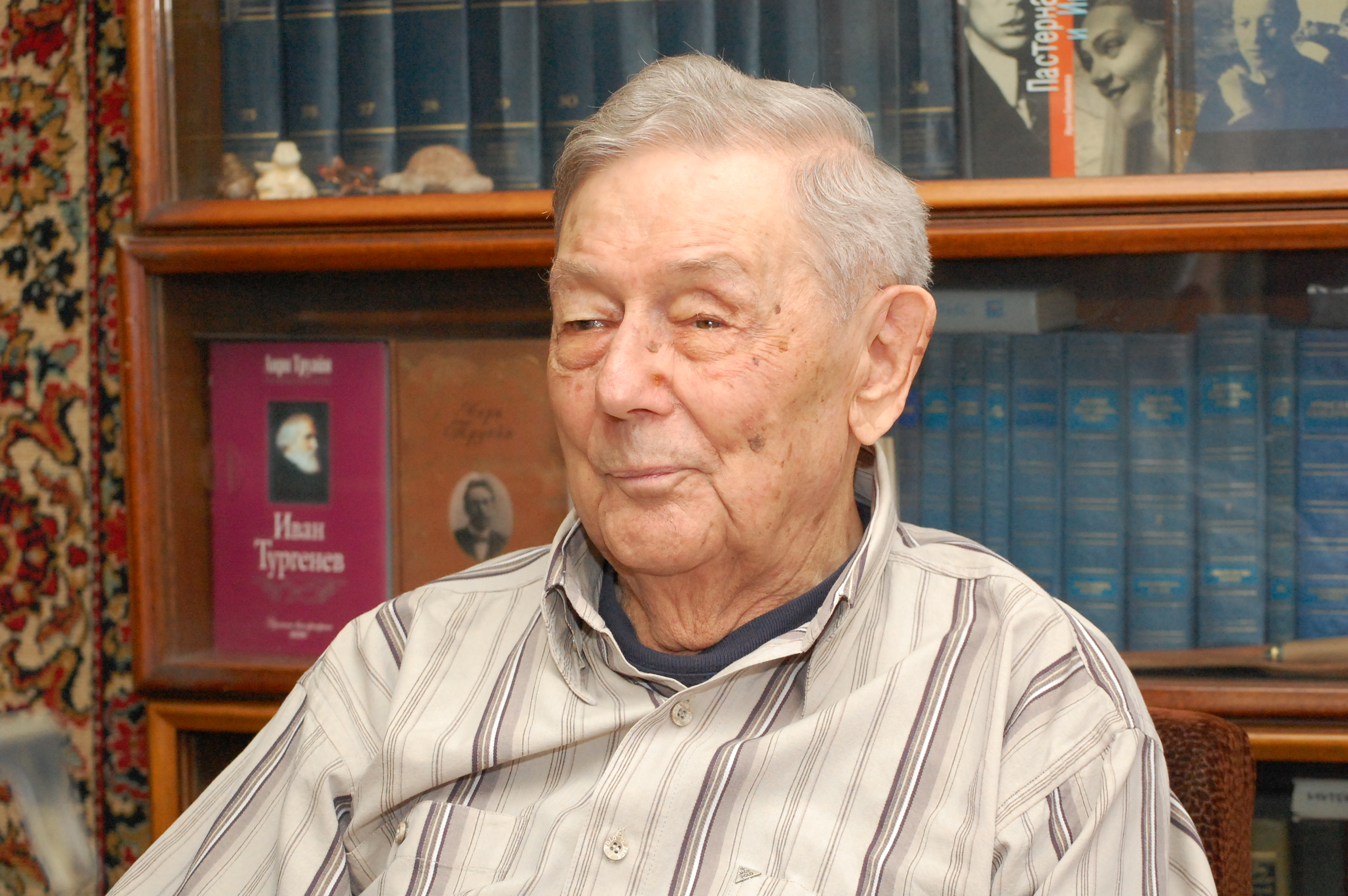 Mark Yudalevich - russian writer and journalist from Barnaul